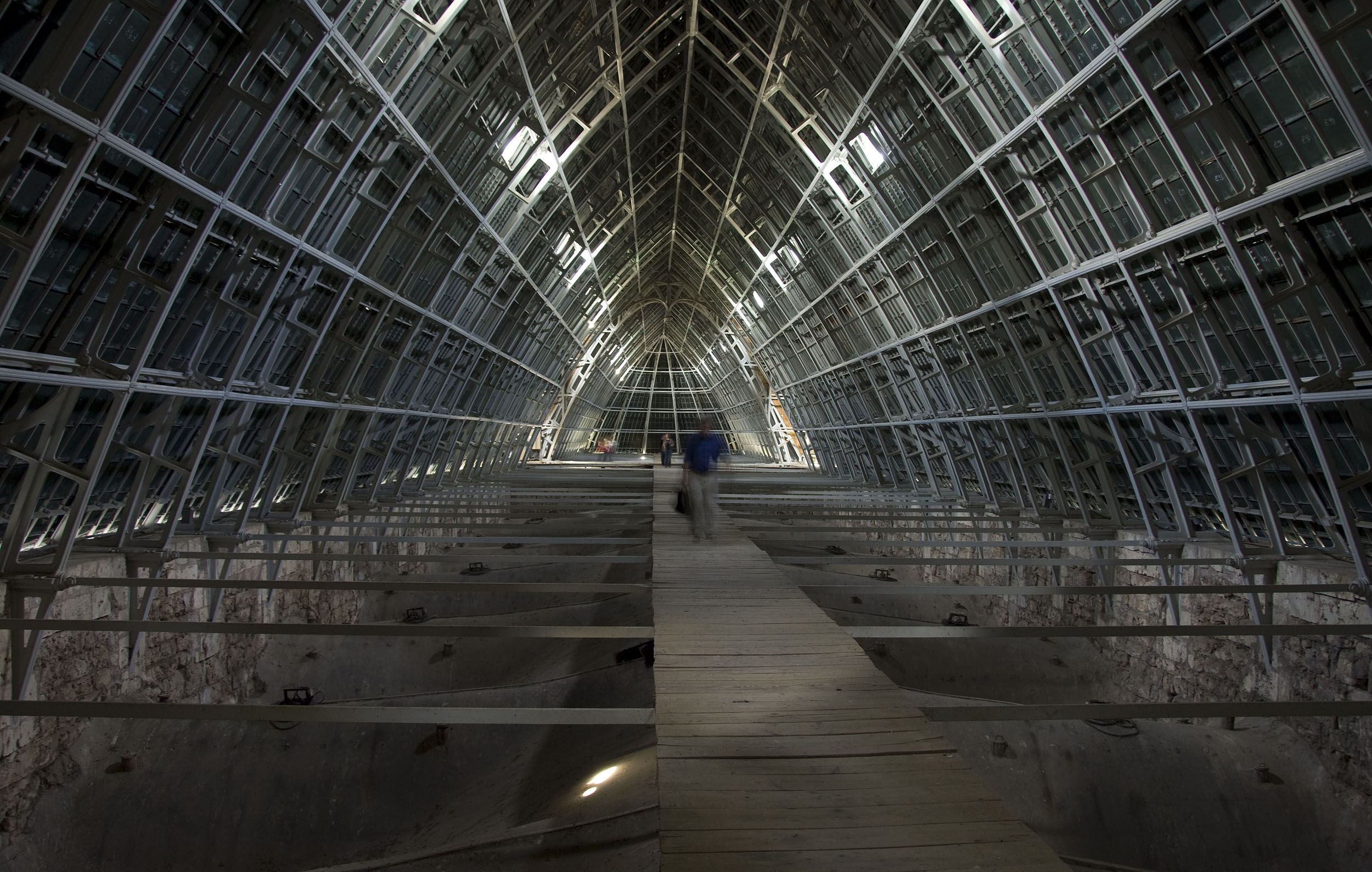 The iron girder structure (known as the charpente de fer supporting the roof of Chartres Cathedral (view from western end)